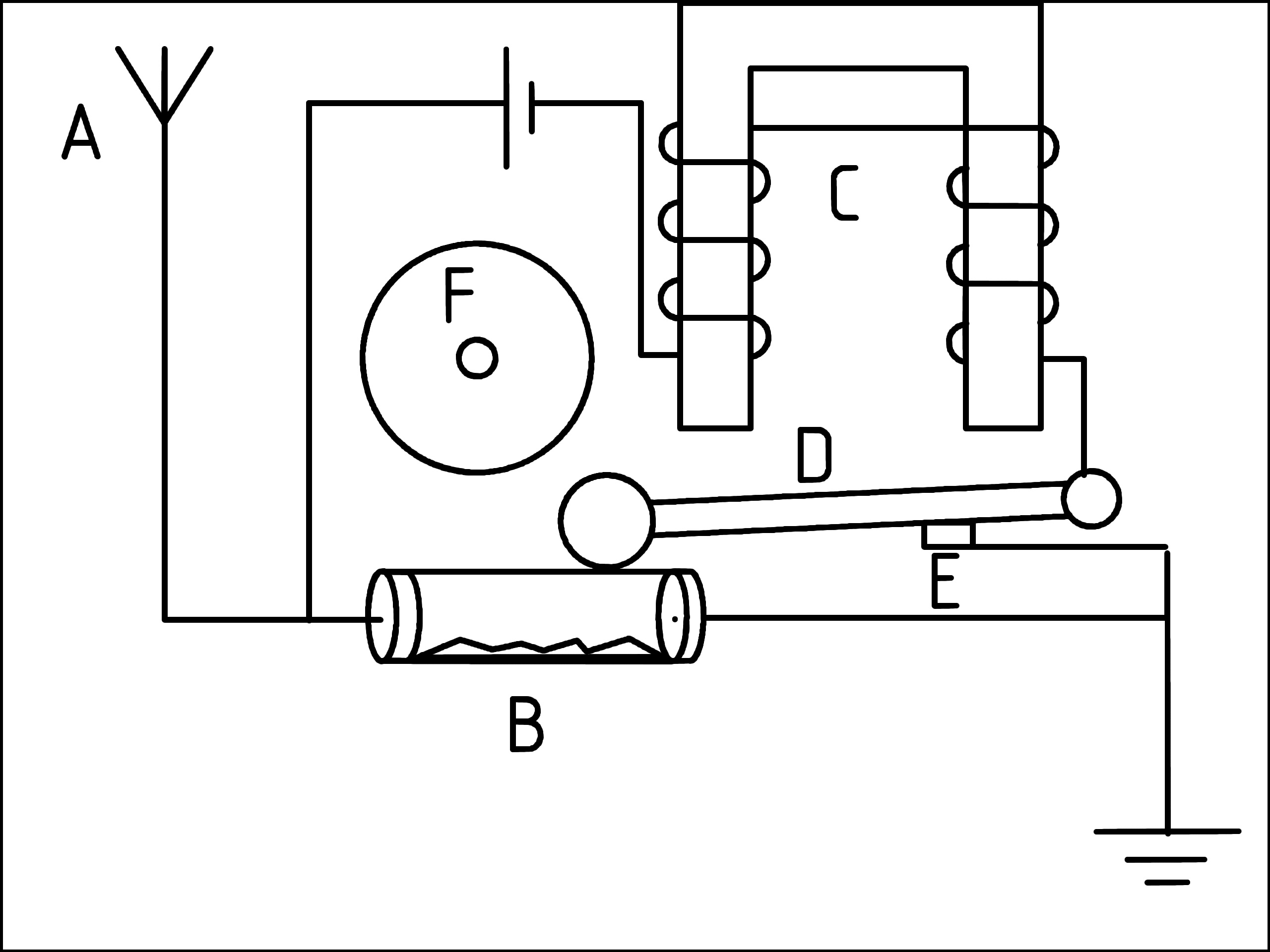 Marconi receiver. A: antenna; B: coherer; C: electromagnet; D: hammer; E: switctch; F: bell.